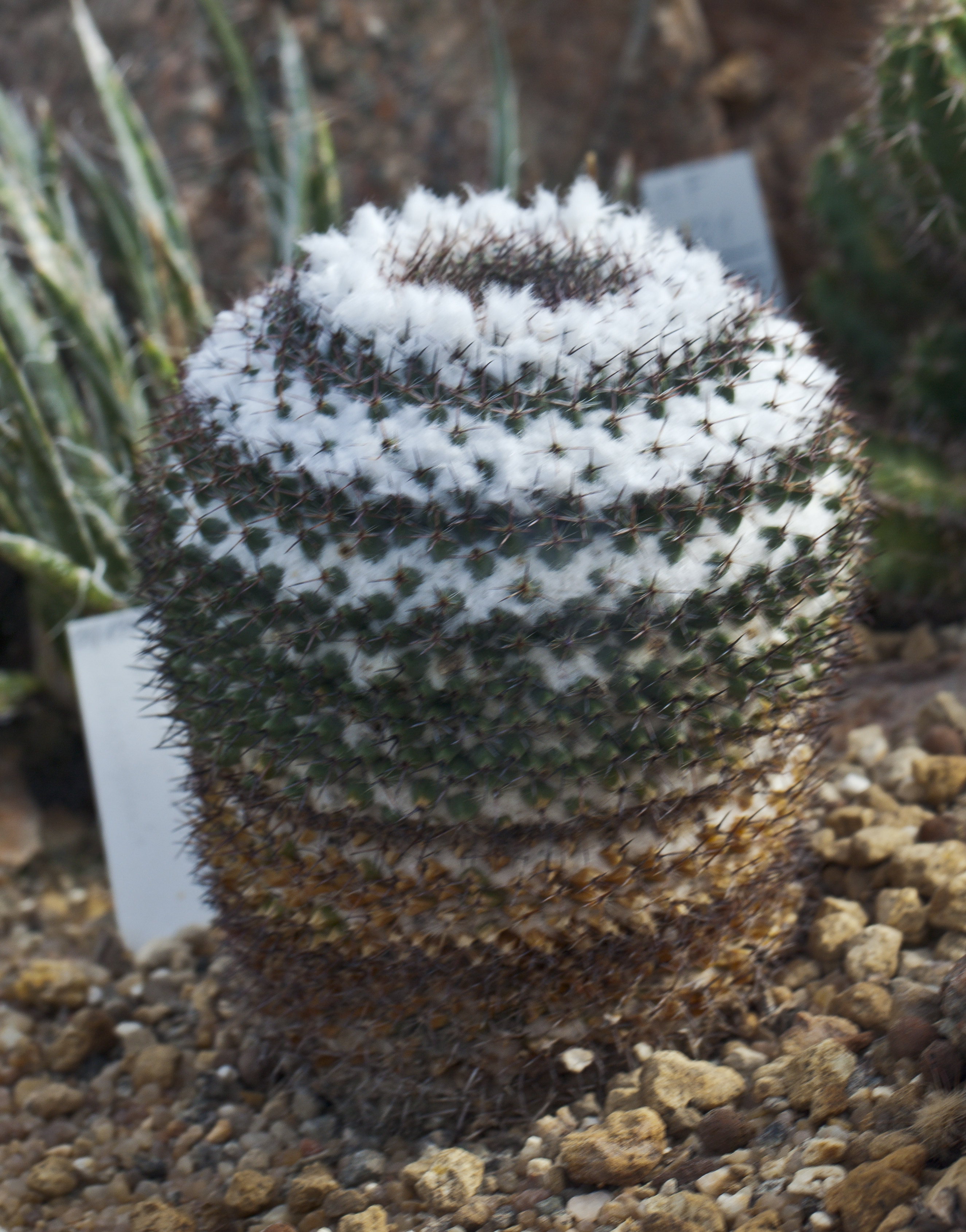 Mammillaria chionocephala, Munich Botanic Garden, Germany